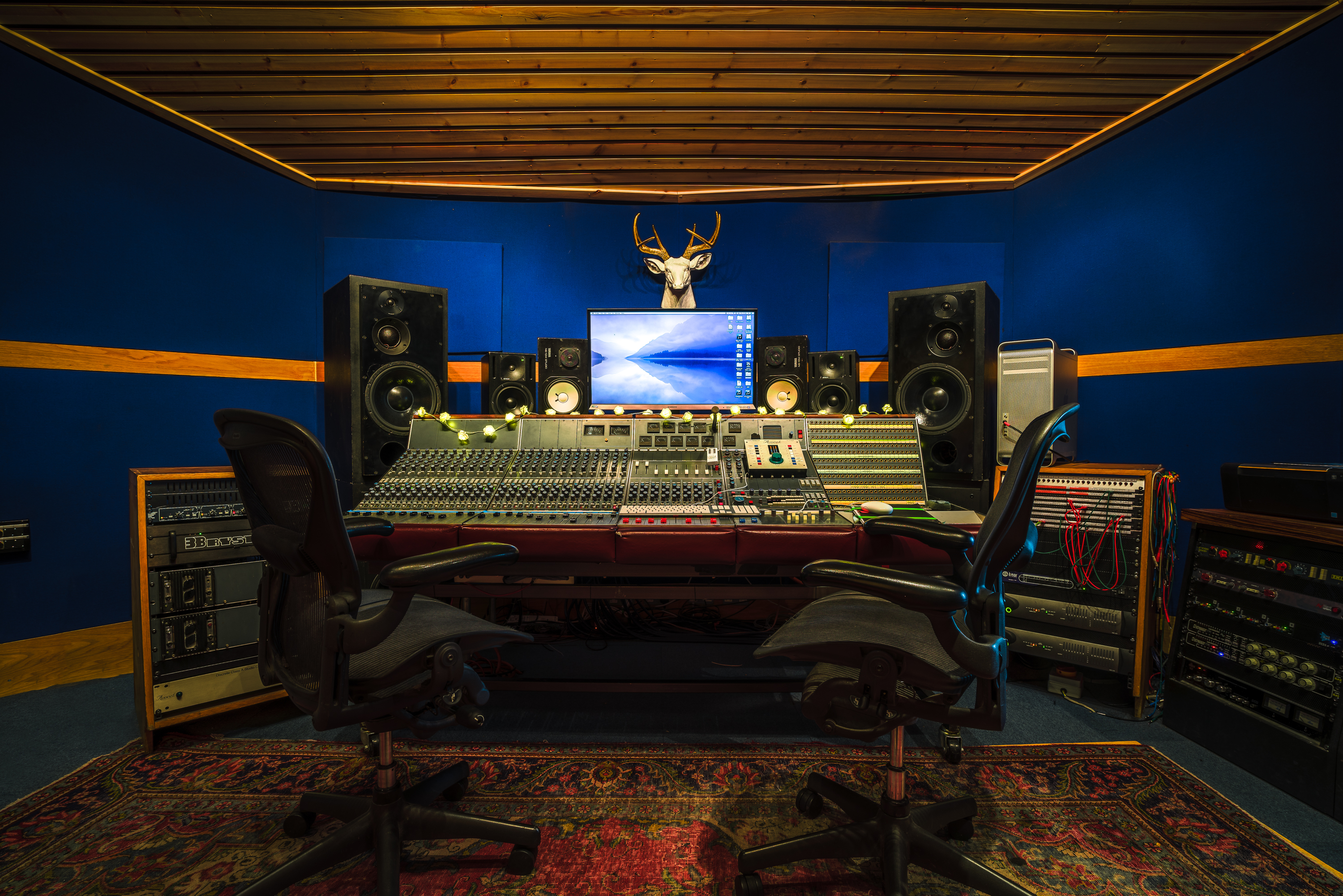 Brighton Electric Studio 1 Control Room